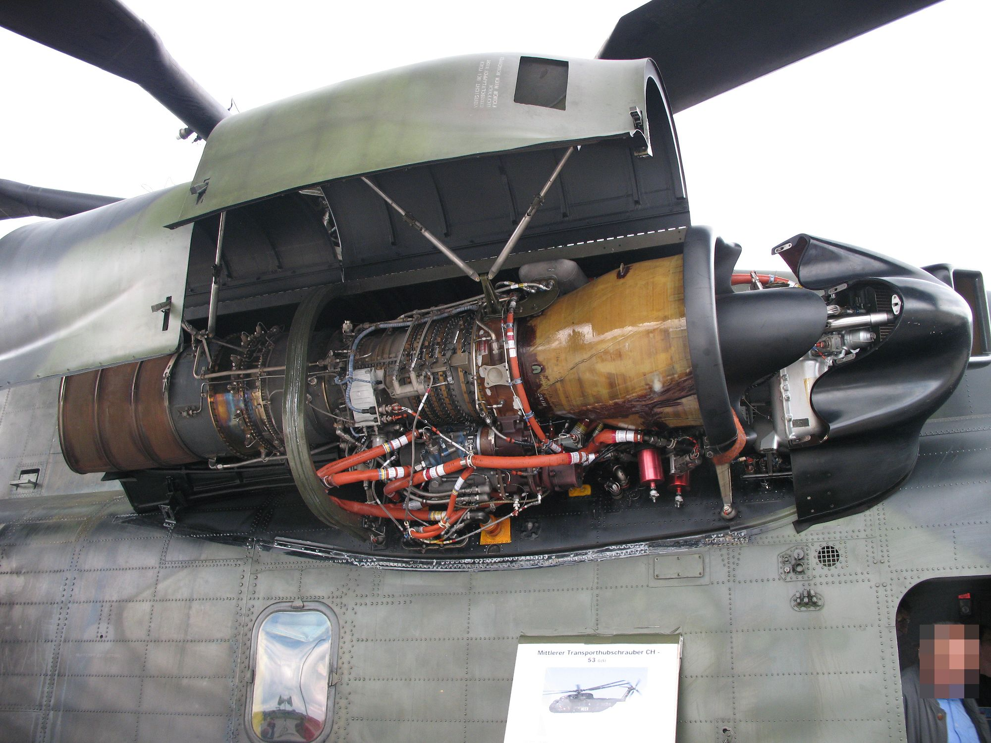 Helicopter engine of a Sikorski CH-53G (General Electric T64-GE-7)